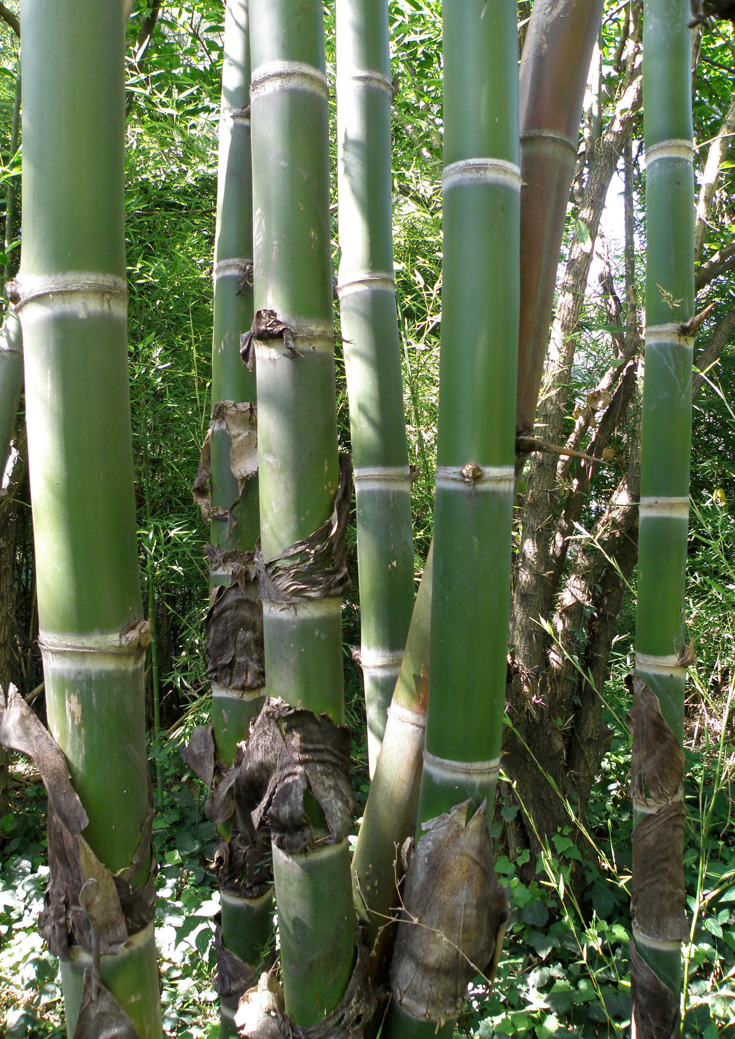 Bamboo of Río de la Plata Basin (Guadua chacoensis).